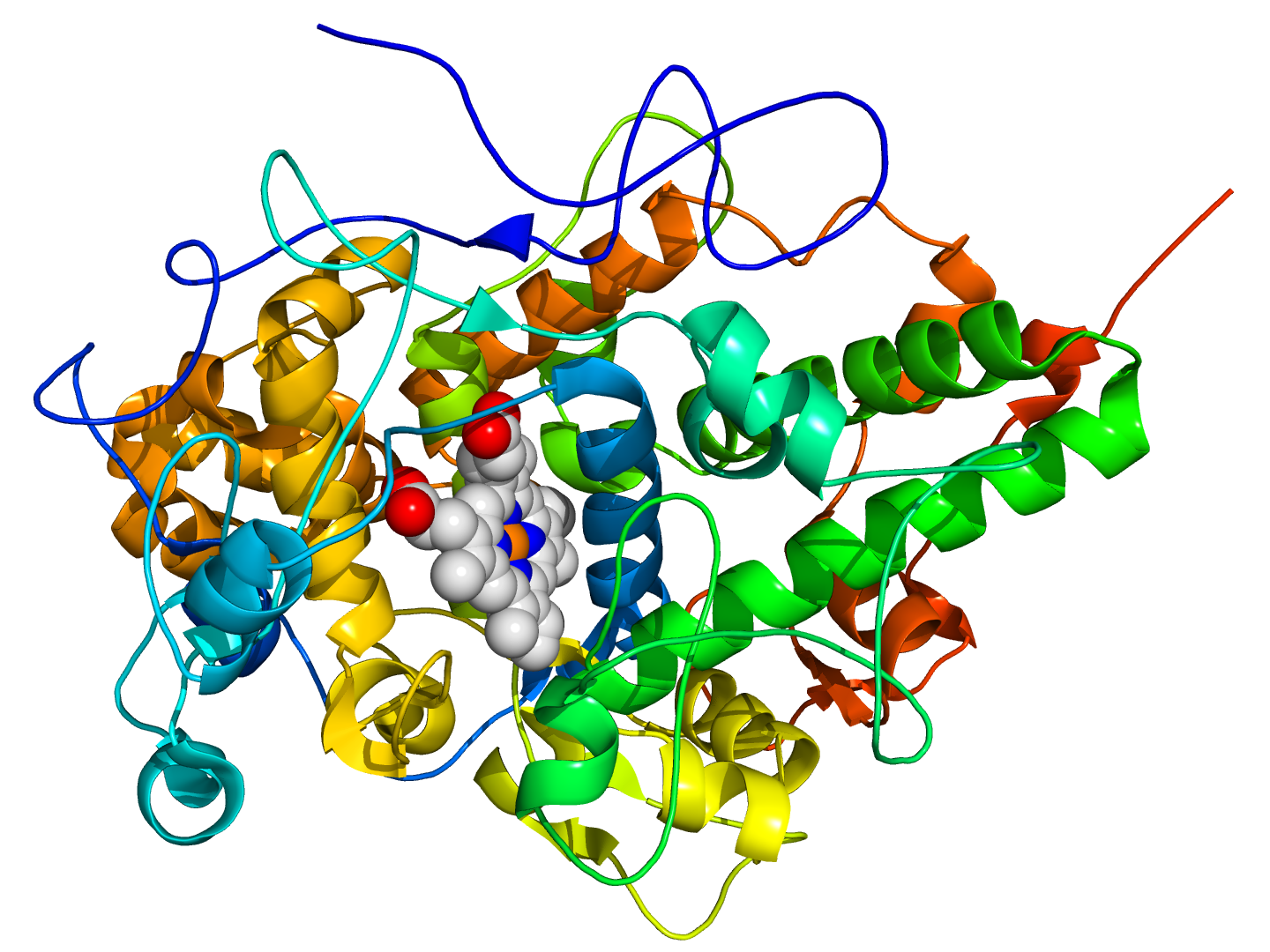 Crystallographic structure of the lactoperoxidase enzyme based on PDB 2R5L coordinates.